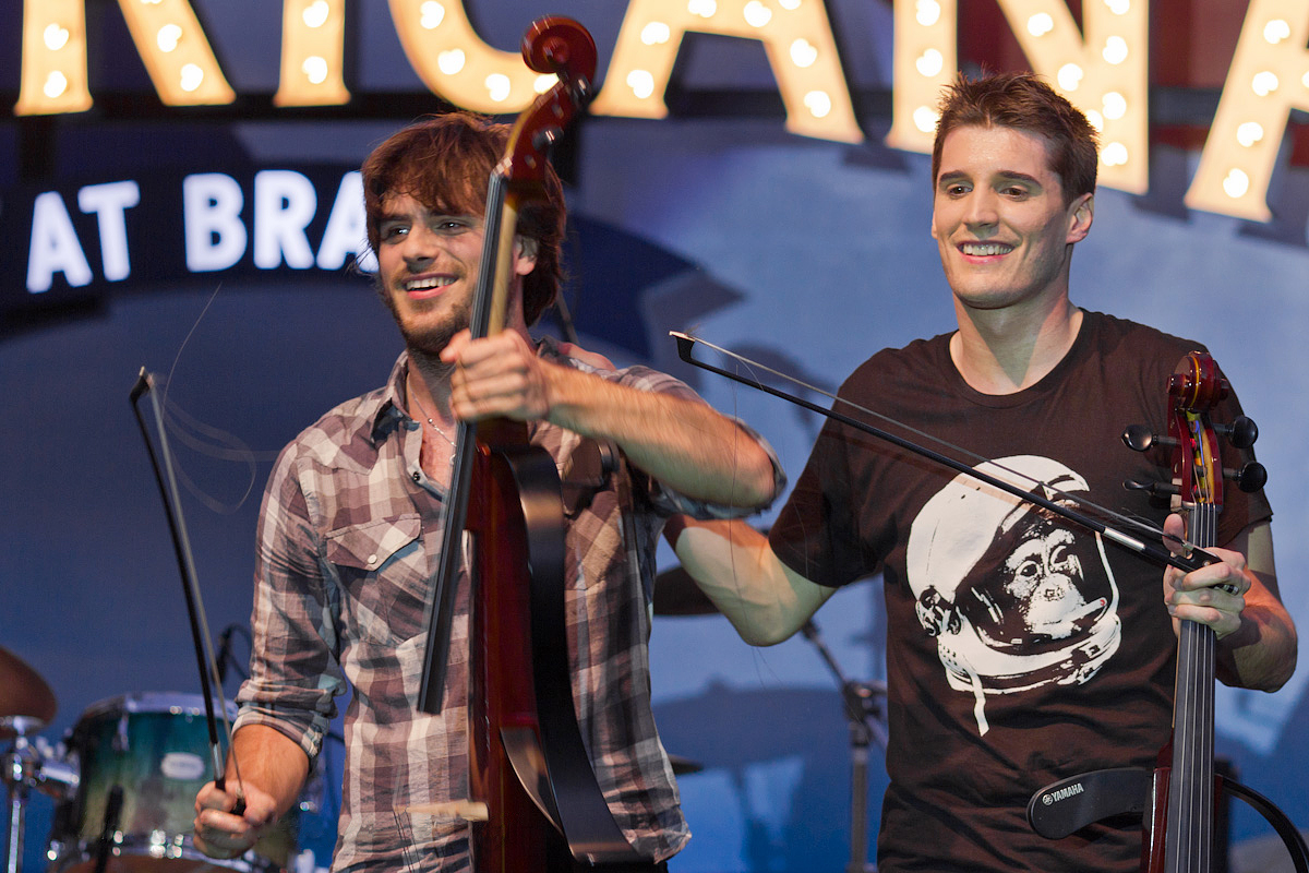 The 2Cellos (from left: Stjepan Hauser and Luka Šulić), at the shopping community Americana At Brand of Glendale, California (United States - August, 4th 2011)